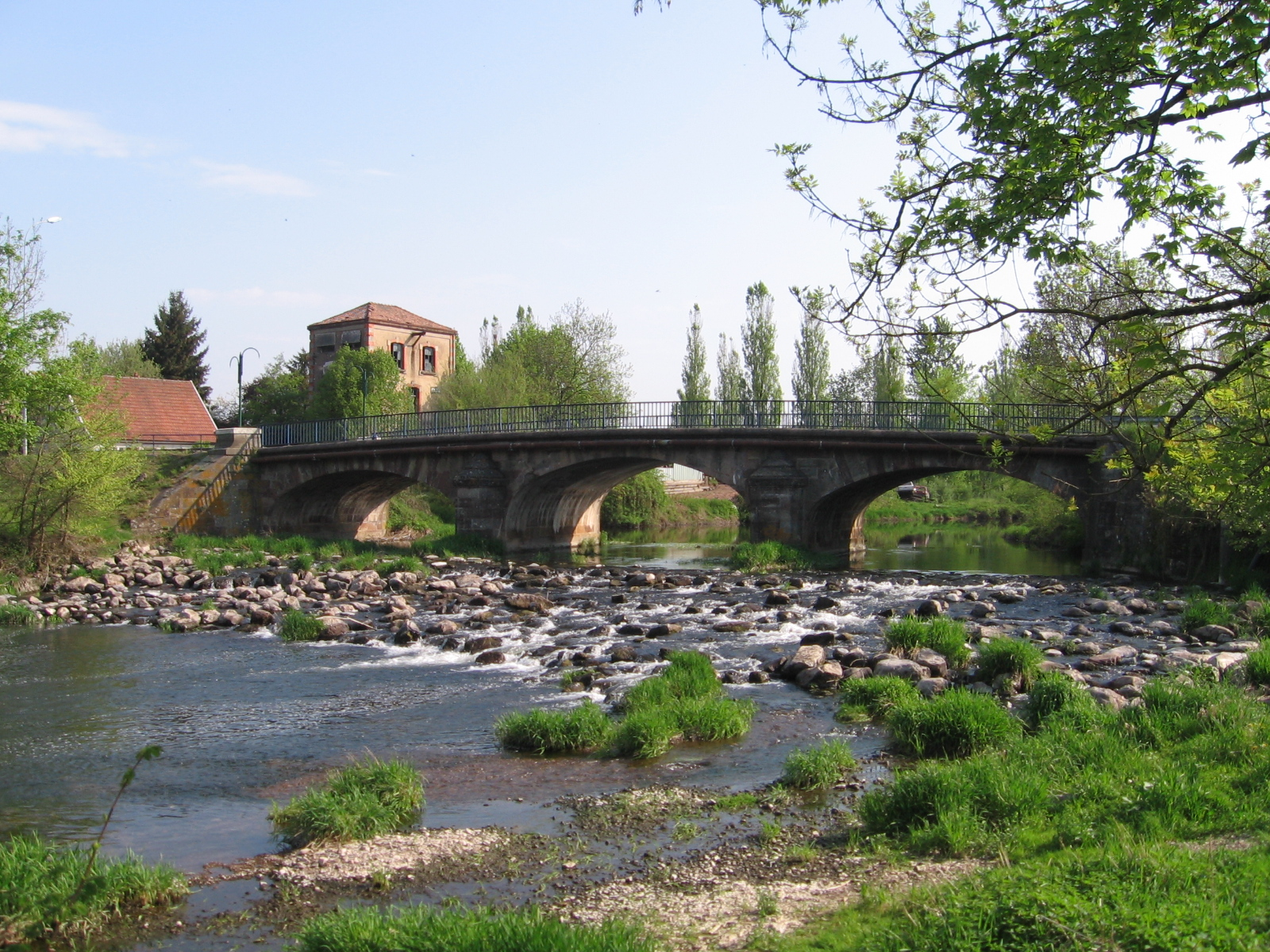 L'Ognon river near Lure, may 2006